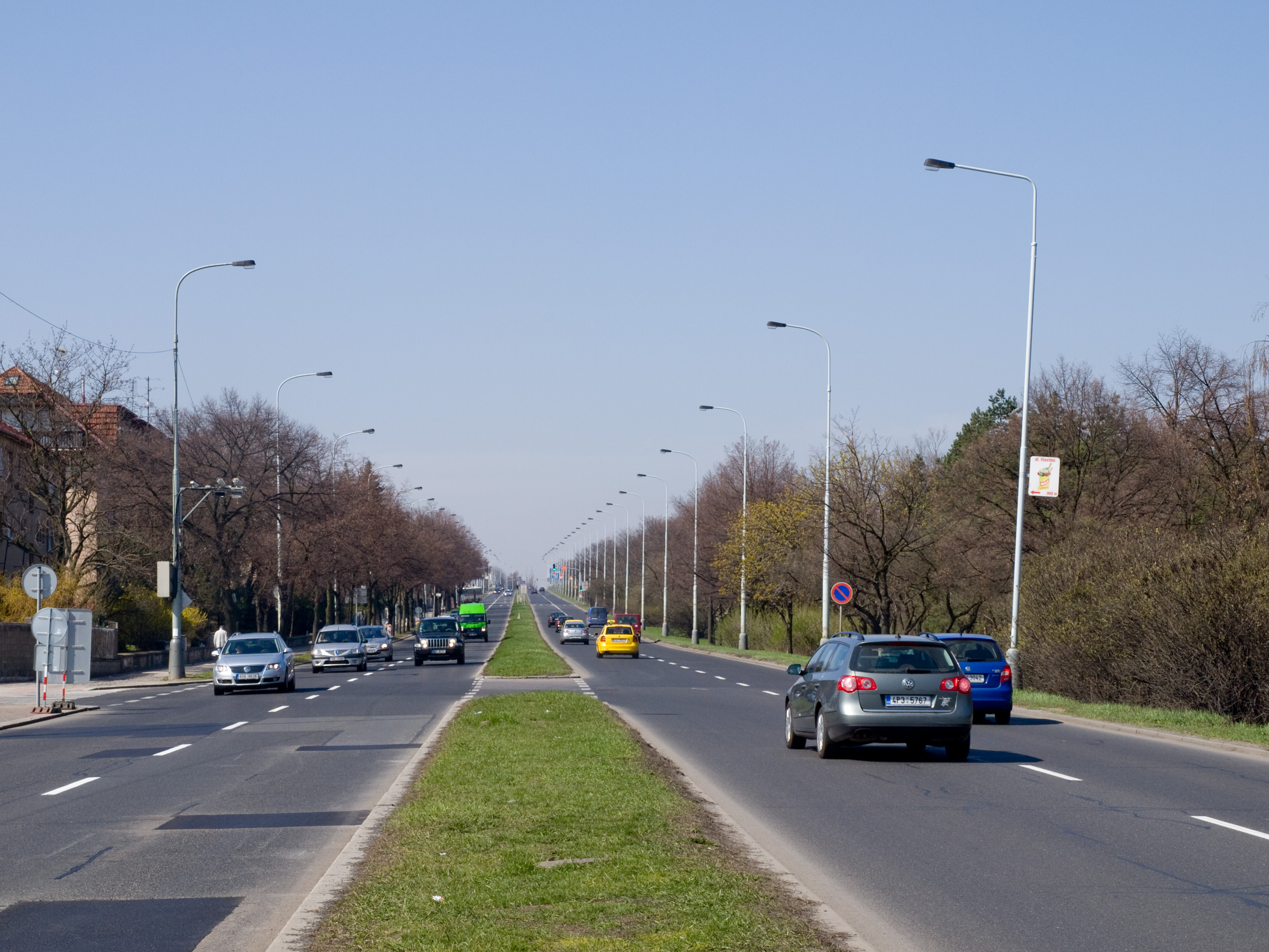 Evropská street towards airport, Divoká Šárka, Prague 6